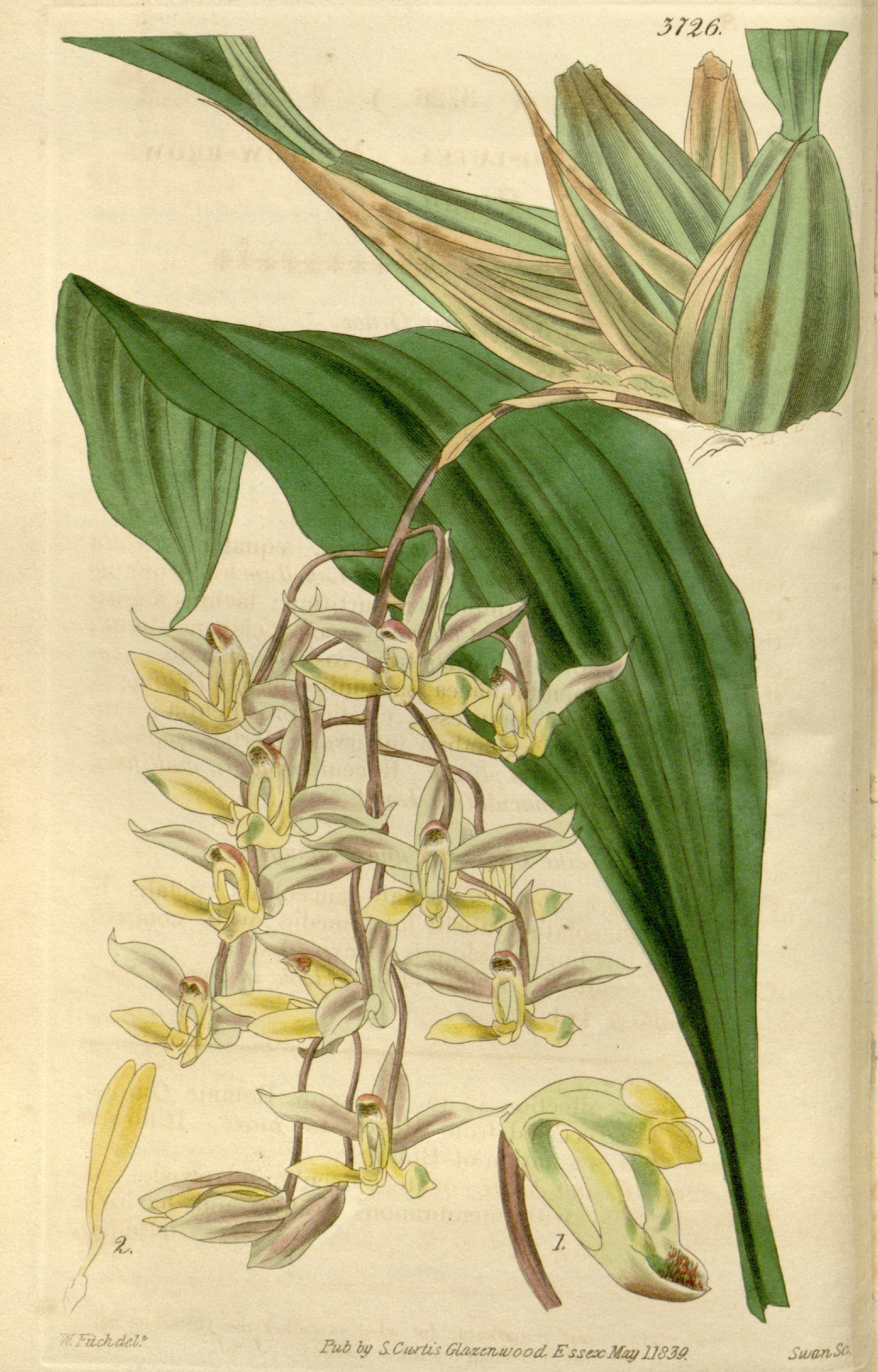 Illustration of Cirrhaea fuscolutea